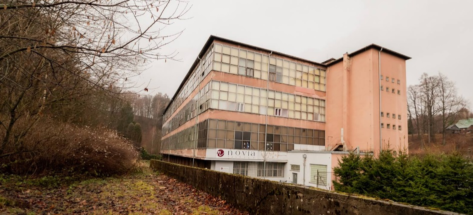 Textile factory